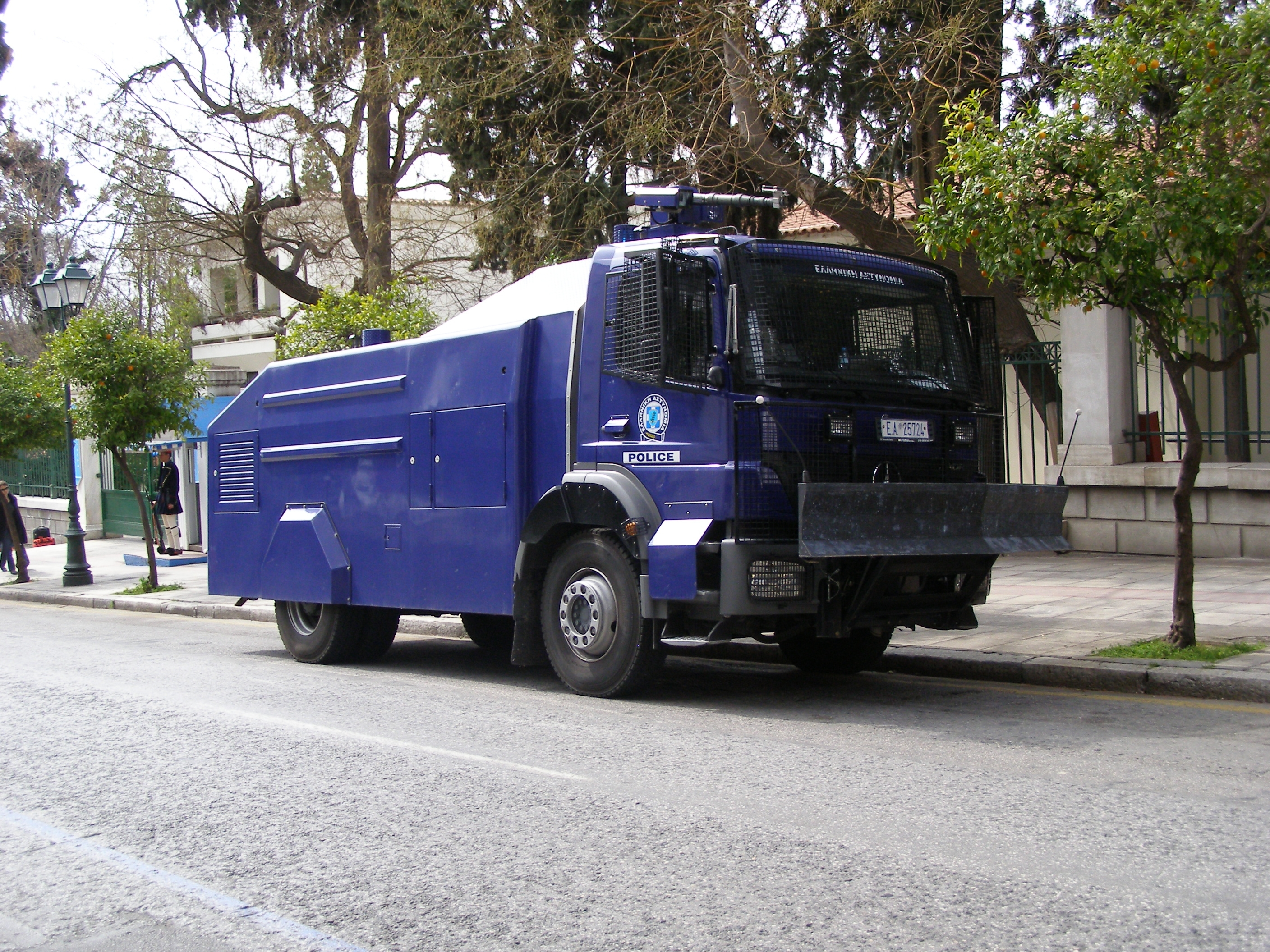 Athens - police water cannon